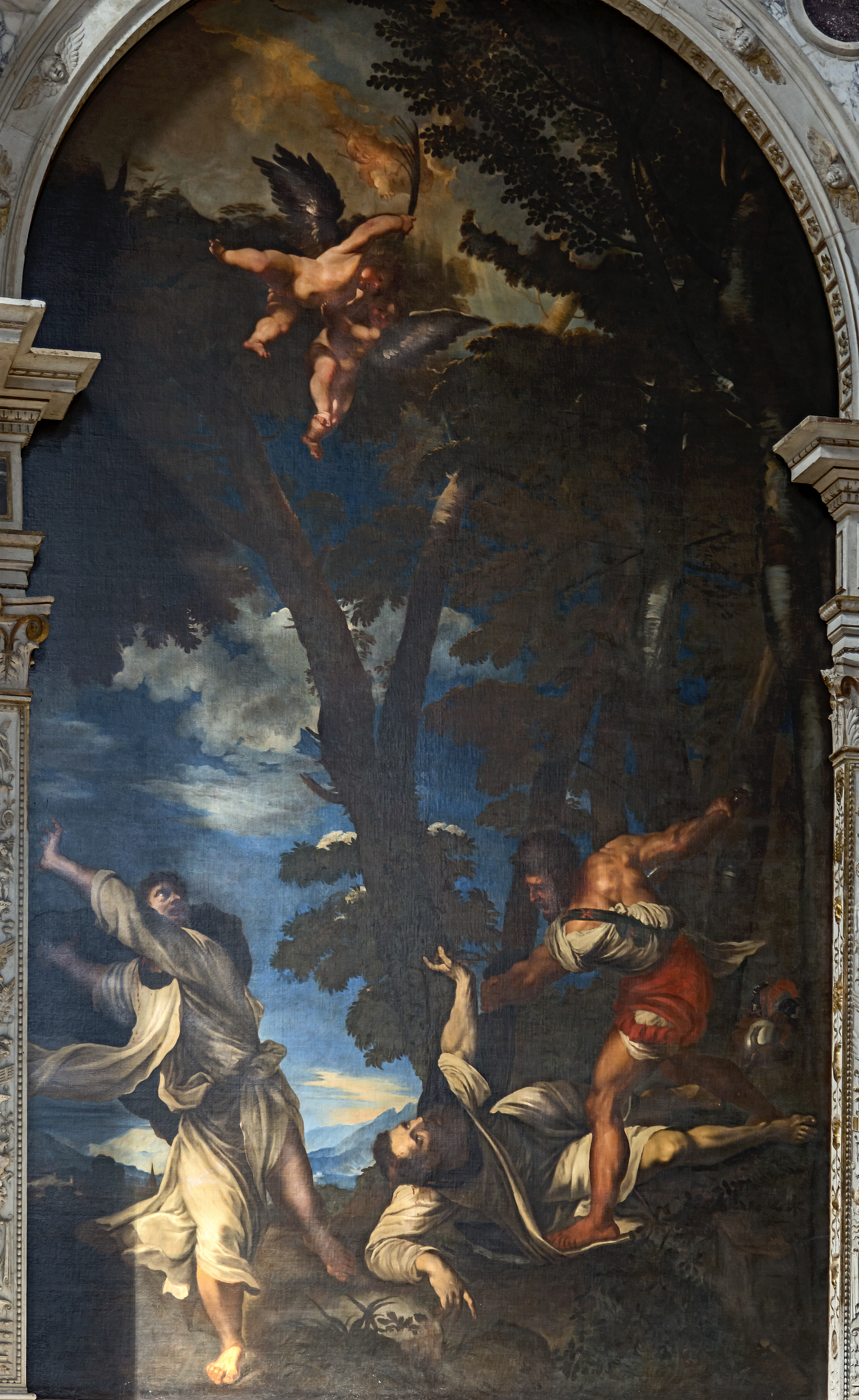 Santi Giovanni e Paolo in Venice. Painting of the altarpiece of St. Peter Martyr. Copy per, Johann Carl Loth in 1691 of the martyrdom of Peter of Verona after a painting by Titian burned in 1867. Oil on caneva ; Size: 500 x 306 cm.